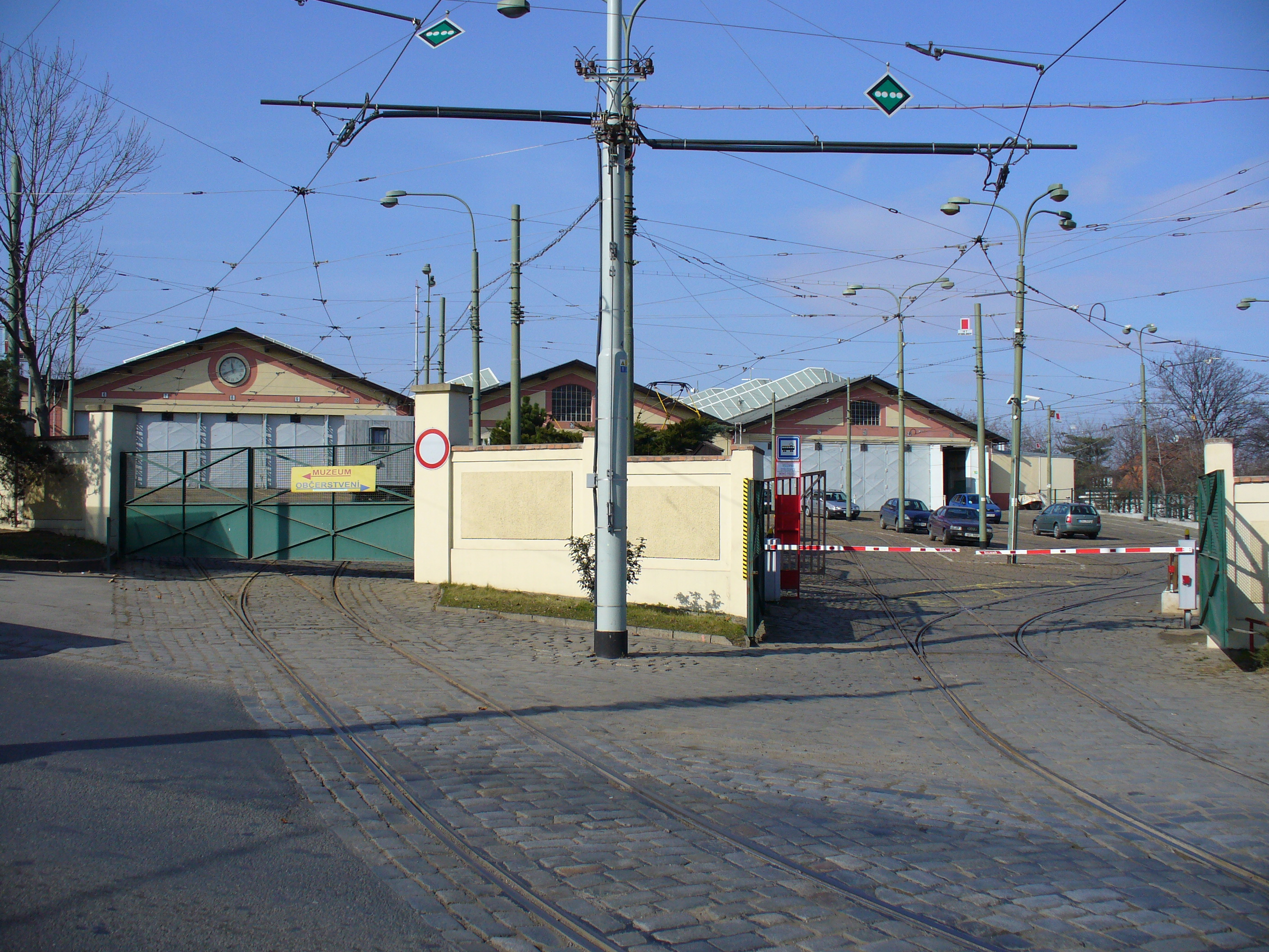 Tram depot Střešovice, Prag, Czech Republic